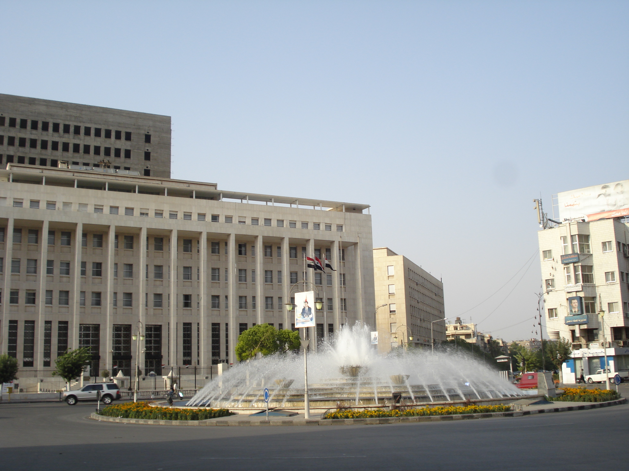 Sabe' Bahrat square in Damascus, Central bank of Syria can been seen at the back